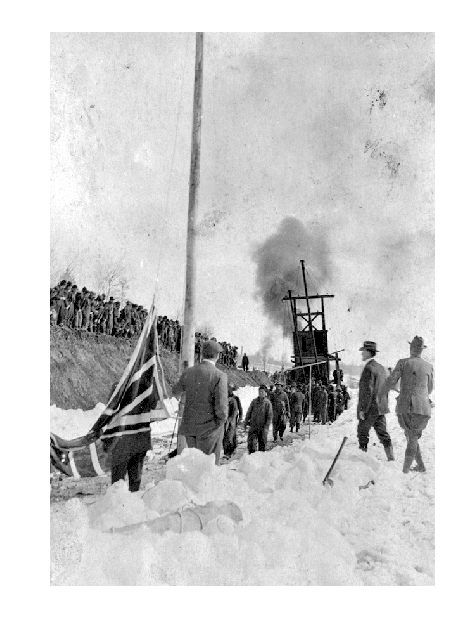 The ceremony for the completion of the Grand Trunk Railway (the "last spike") began with a race between the track-layers and crews from the eastern and western ends of construction. The last mile had been left unfinished and each crew was timed to see who could complete their last half mile the fastest. The eastern crew won by a margin of only a few minutes and then the western crew placed the last rail. Image shows a track-laying crew ready to race.